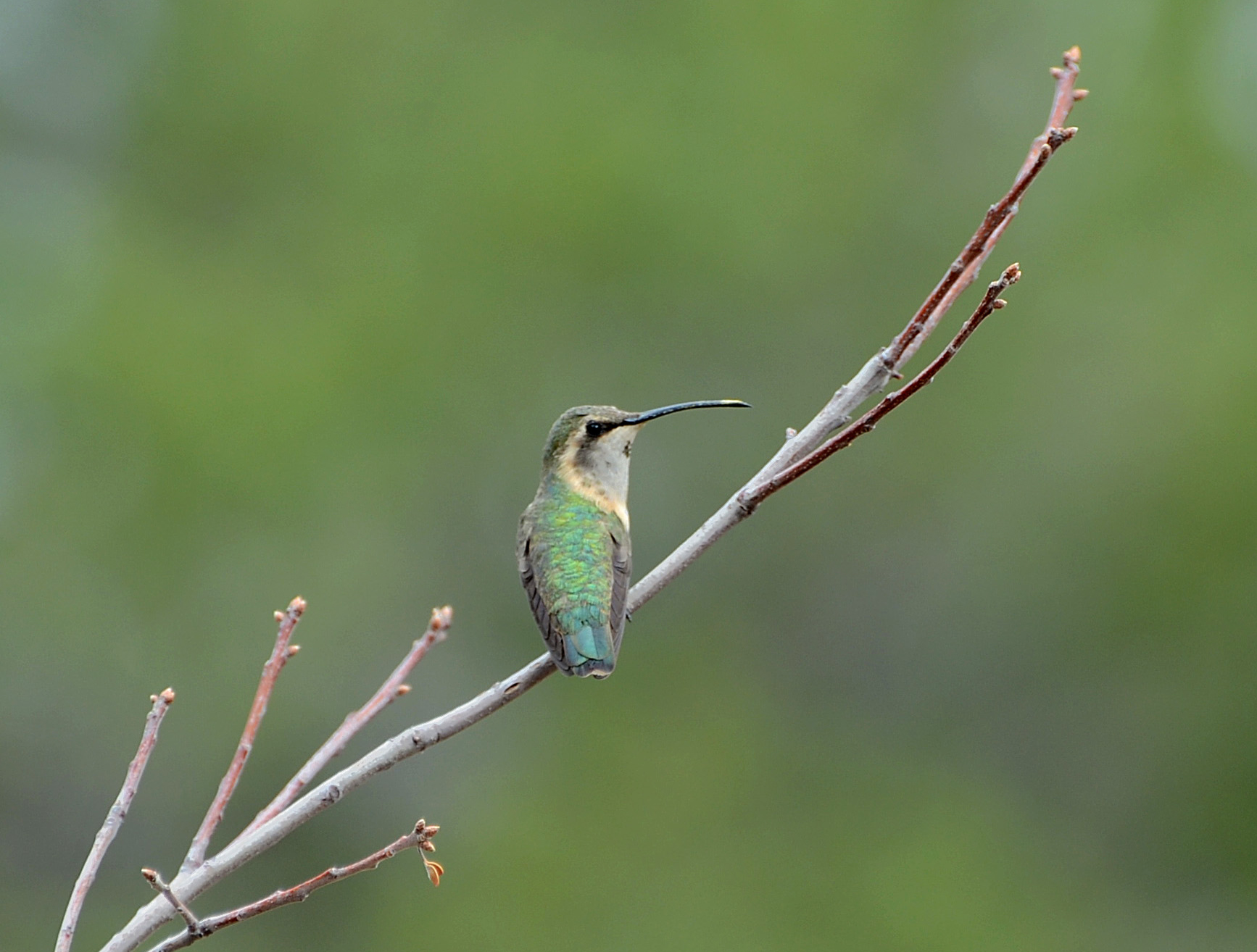 Lucifer Sheartail Calothorax lucifer, Big Bend National Park, west Texas